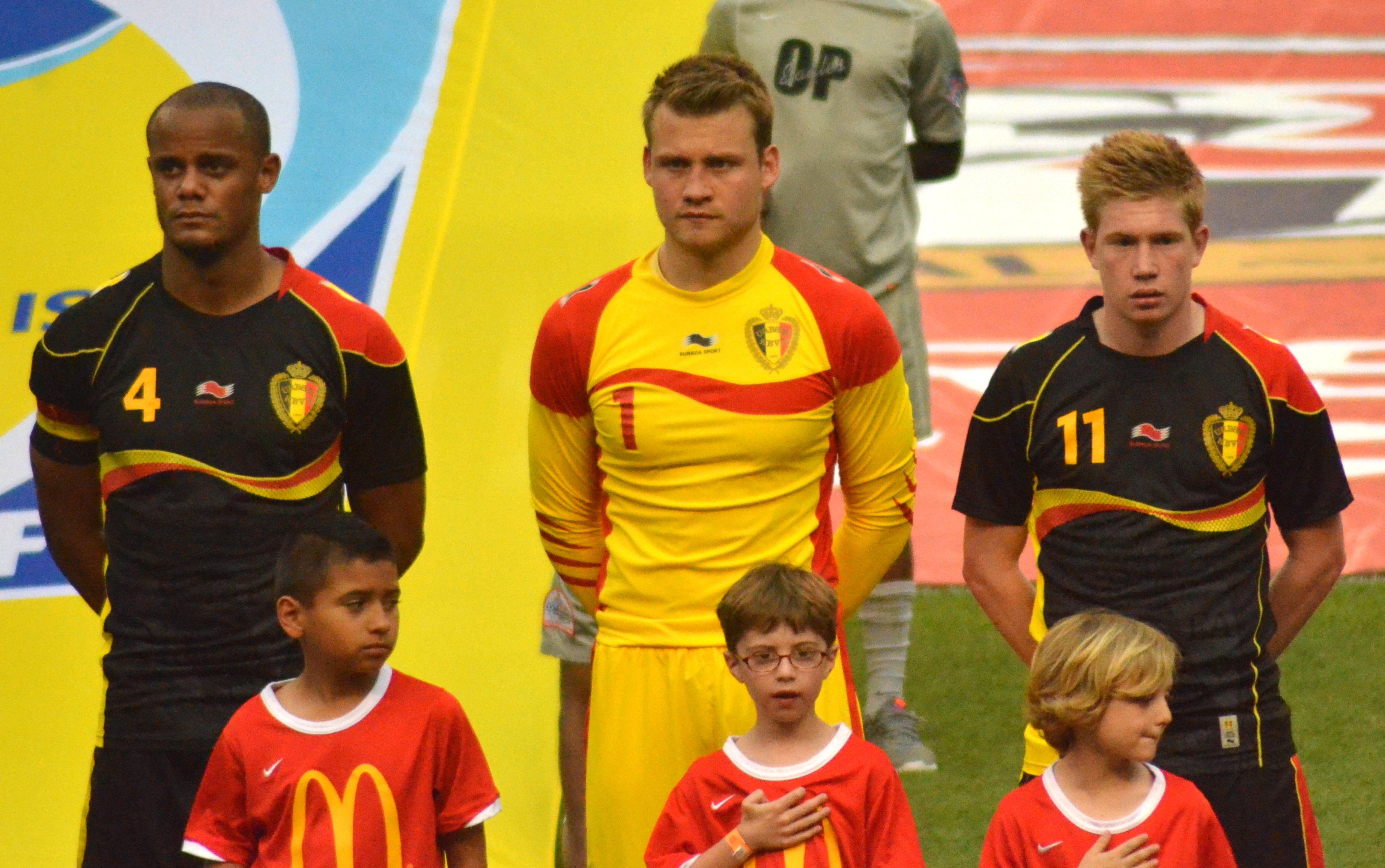 FirstEnergy Stadium Home of the Cleveland Browns